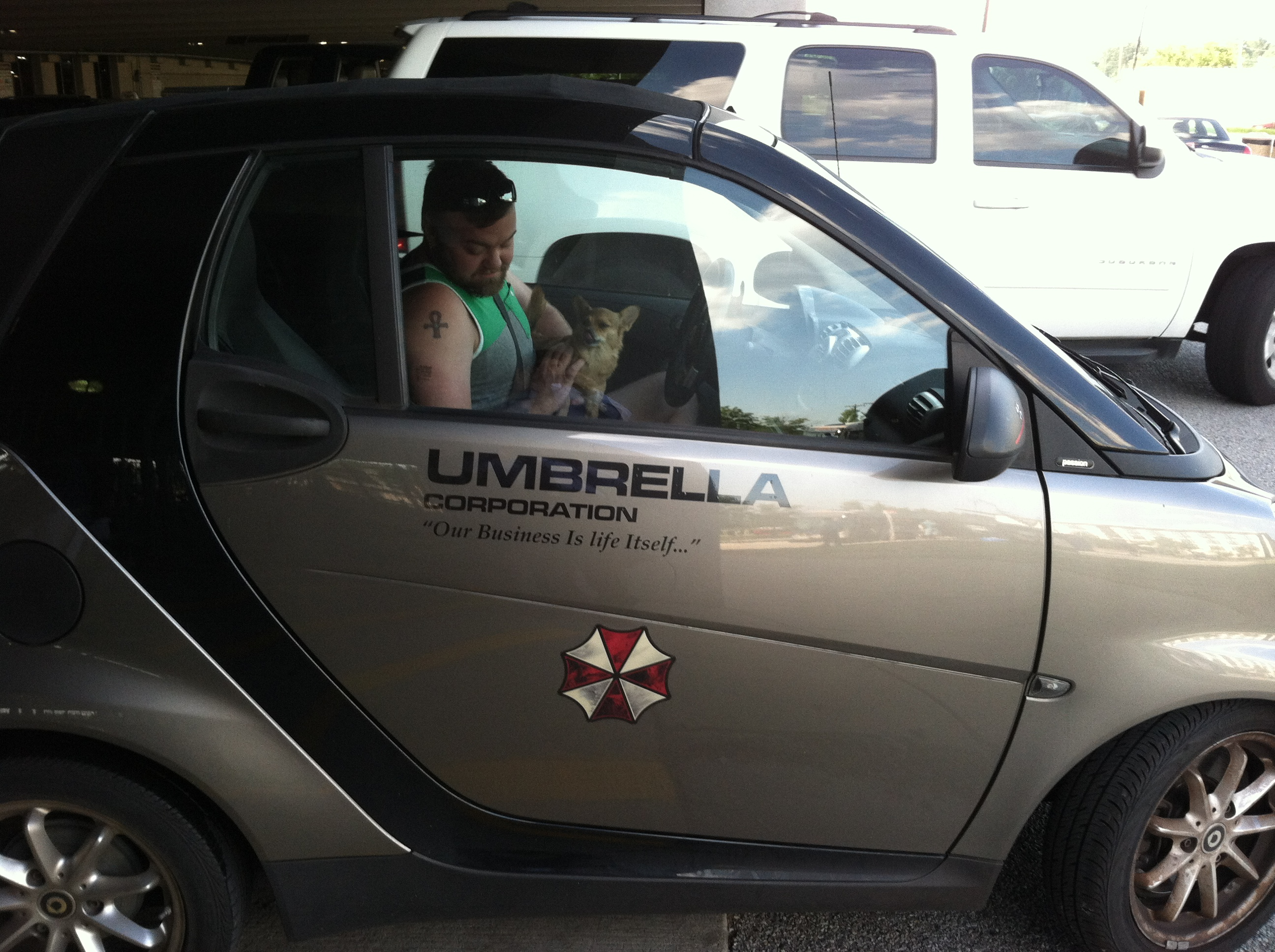 On July 22, 2016, on casual Friday, an Umbrella Corporation pharmaceutical representative driving around with his lunch in his hands.